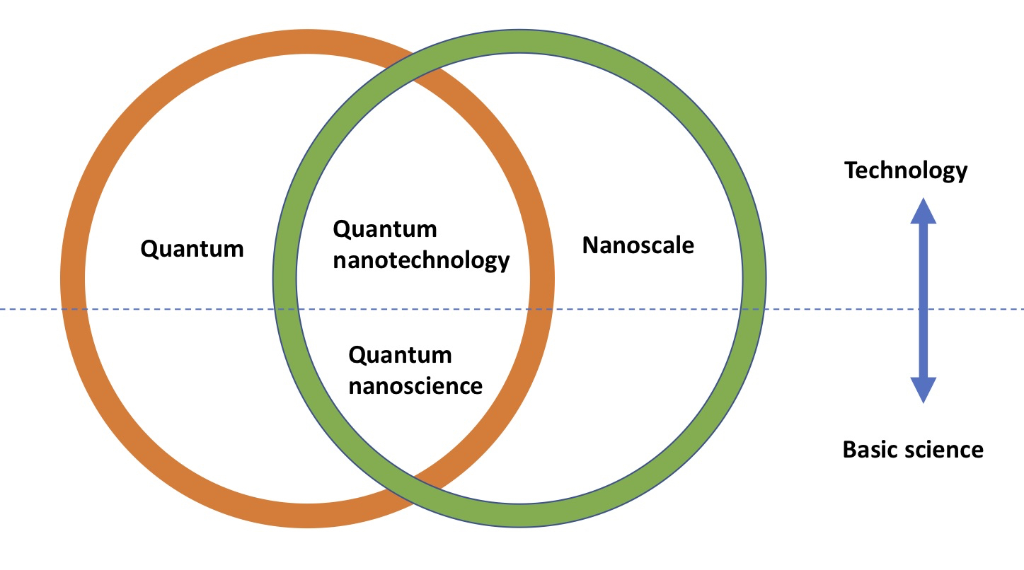 Technology applications of quantum nanoscience